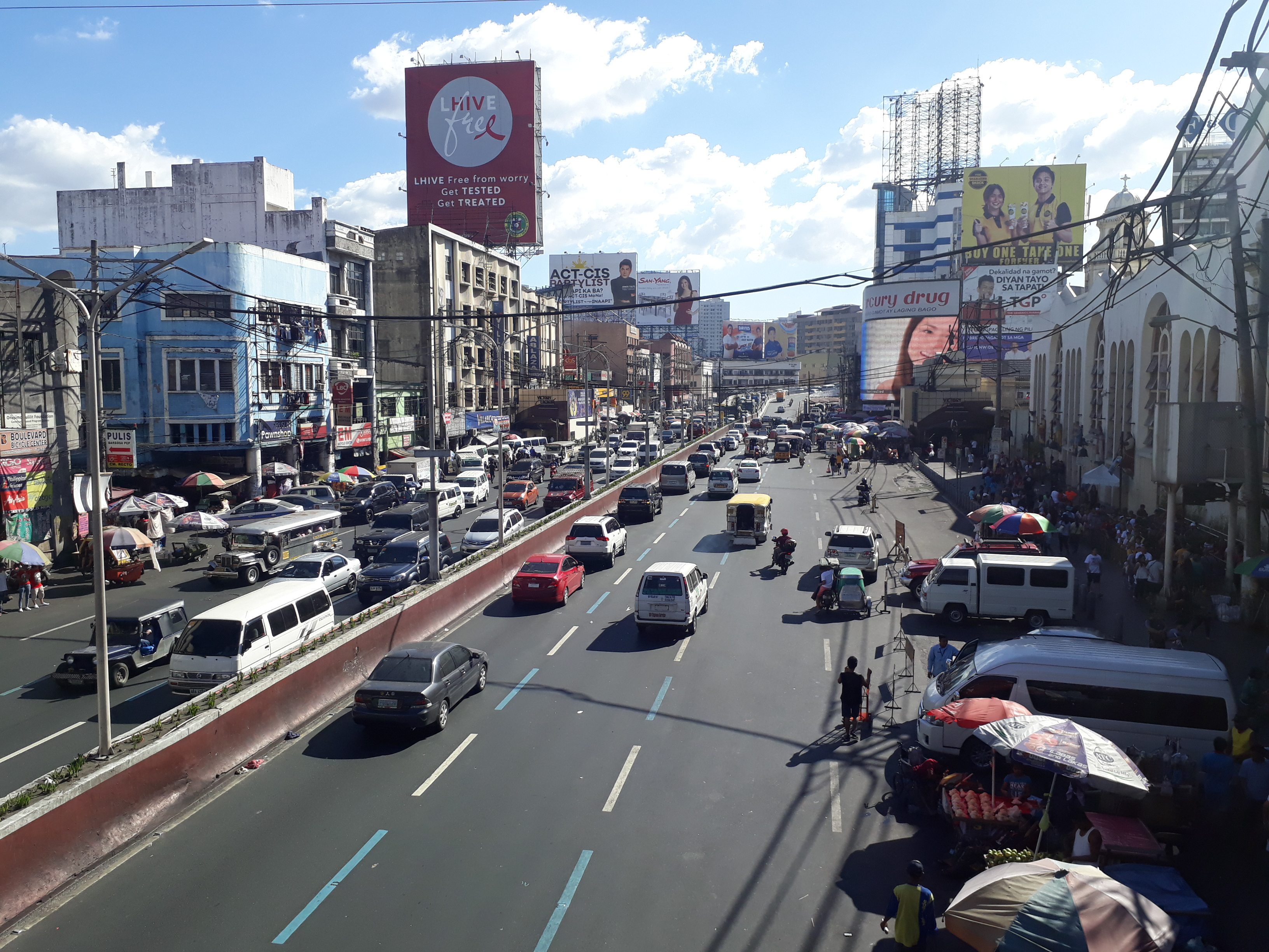 Quezon Boulevard in Quiapo, Manila